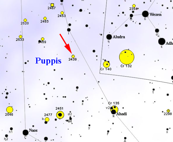 Map of NGC 2439